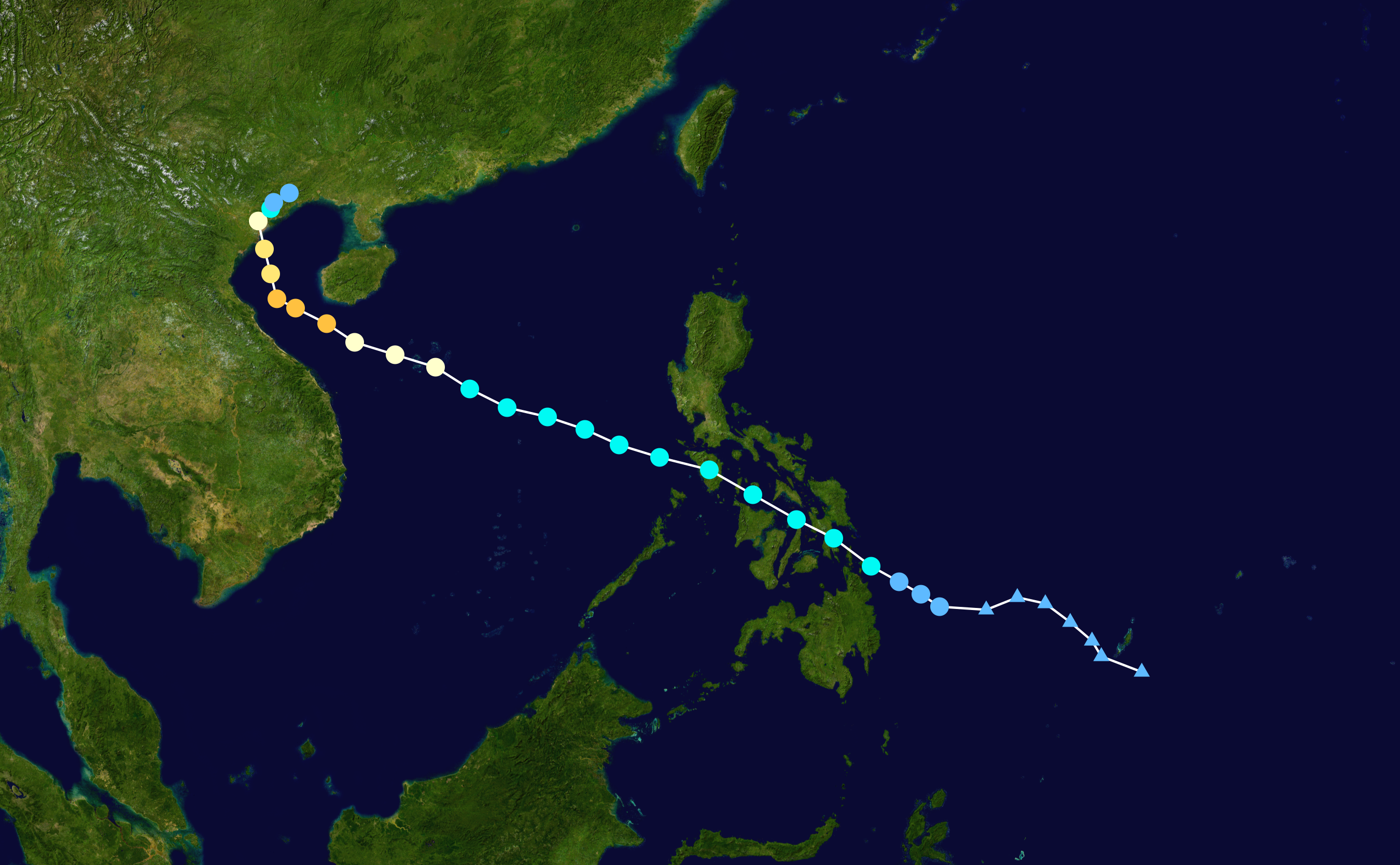 Track map of Typhoon Son-Tinh of the 2012 Pacific typhoon season. The points show the location of the storm at 6-hour intervals. The colour represents the storm's maximum sustained wind speeds as classified in the Saffir–Simpson scale (see below), and the shape of the data points represent the nature of the storm, according to the legend below. Saffir–Simpson scale Tropical depression≤38 mph≤62 km/h Category 3111–129 mph178–208 km/h Tropical storm39–73 mph63–118 km/h Category 4130–156 mph209–251 km/h Category 174–95 mph119–153 km/h Category 5≥157 mph≥252 km/h Category 296–110 mph154–177 km/h Unknown Storm type Tropical cyclone Subtropical cyclone Extratropical cyclone / Remnant low / Tropical disturbance / Monsoon depression